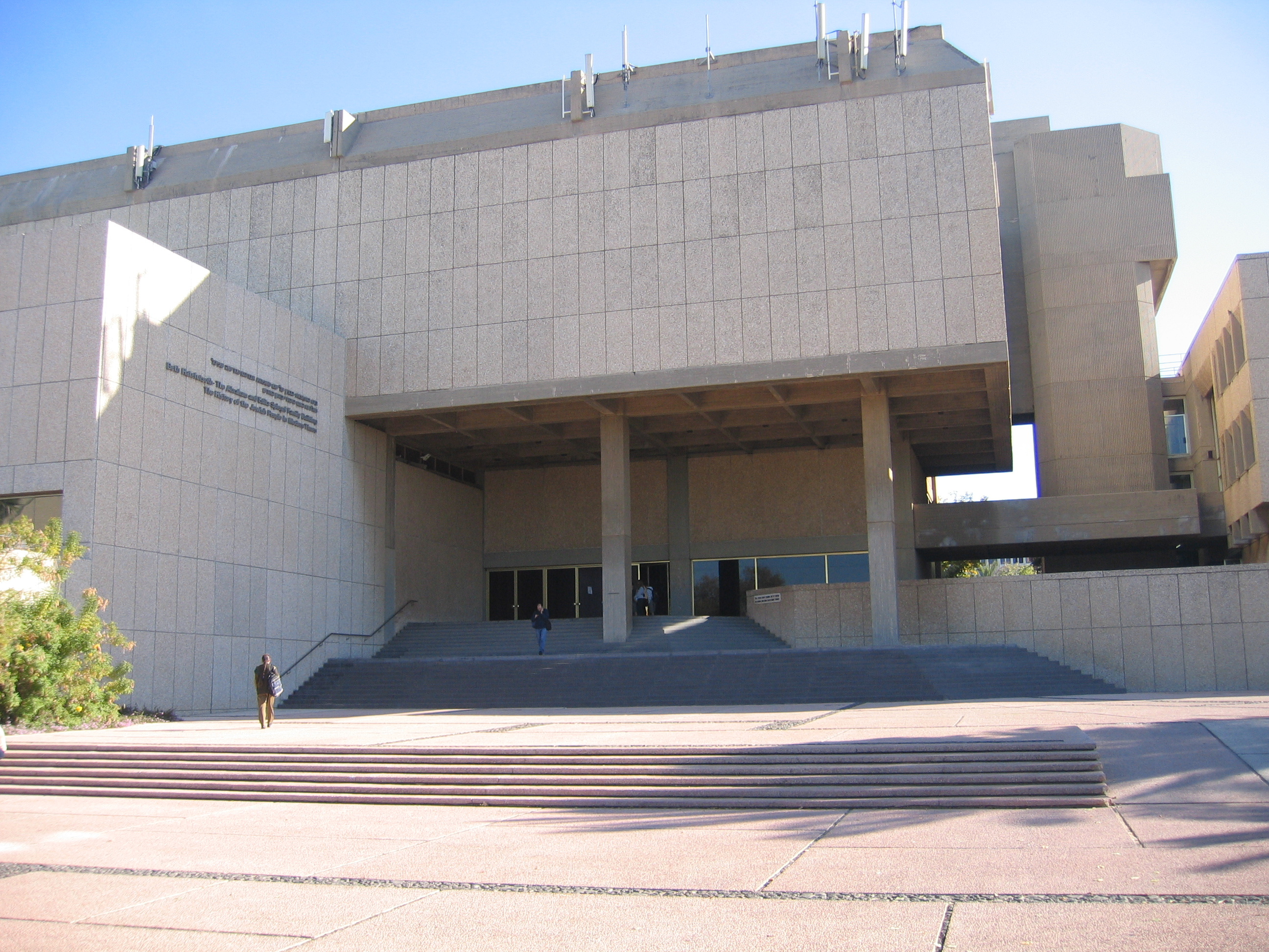 Beth Hatefutsoth